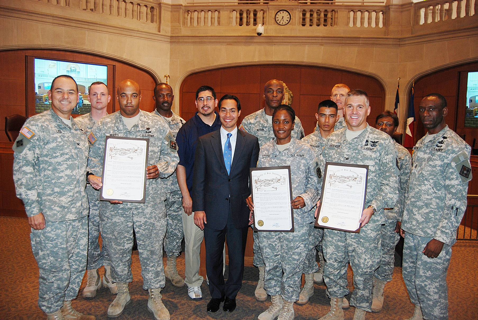 San Antonio Mayor Julian Castro presents the city proclamation celebrating Hispanic Heritage Month at city council chambers Sept. 3 to Col. Randall Anderson, commander, 32nd Medical Brigade, and Col. James Lee, 470th Military Intelligence Brigade and members of the Fort Sam Houston Equal Employment Opportunity Offices. The proclamation recognizes Fort Sam Houston Hispanic Heritage Month programs and activities.